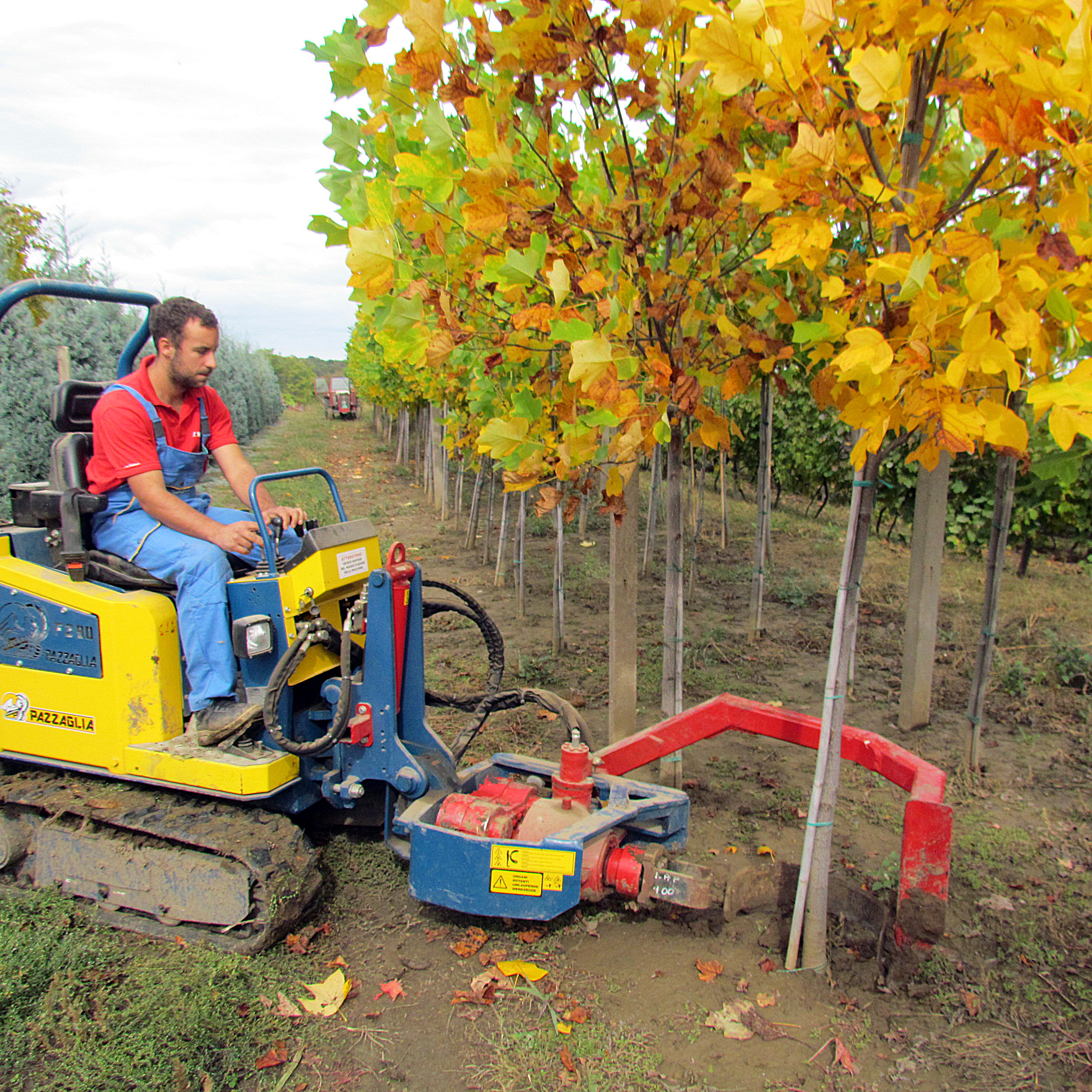 Tree digger, Erdevik